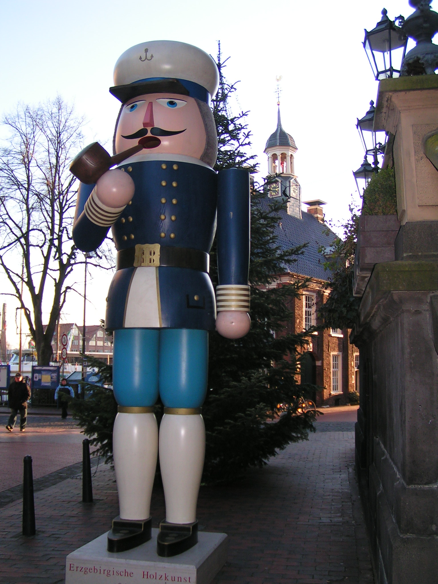 Figur aus dem Erzgebirge, in der Weihnachtszeit vor dem Rathaus in Leer (Ostfriesland) aufgestellt